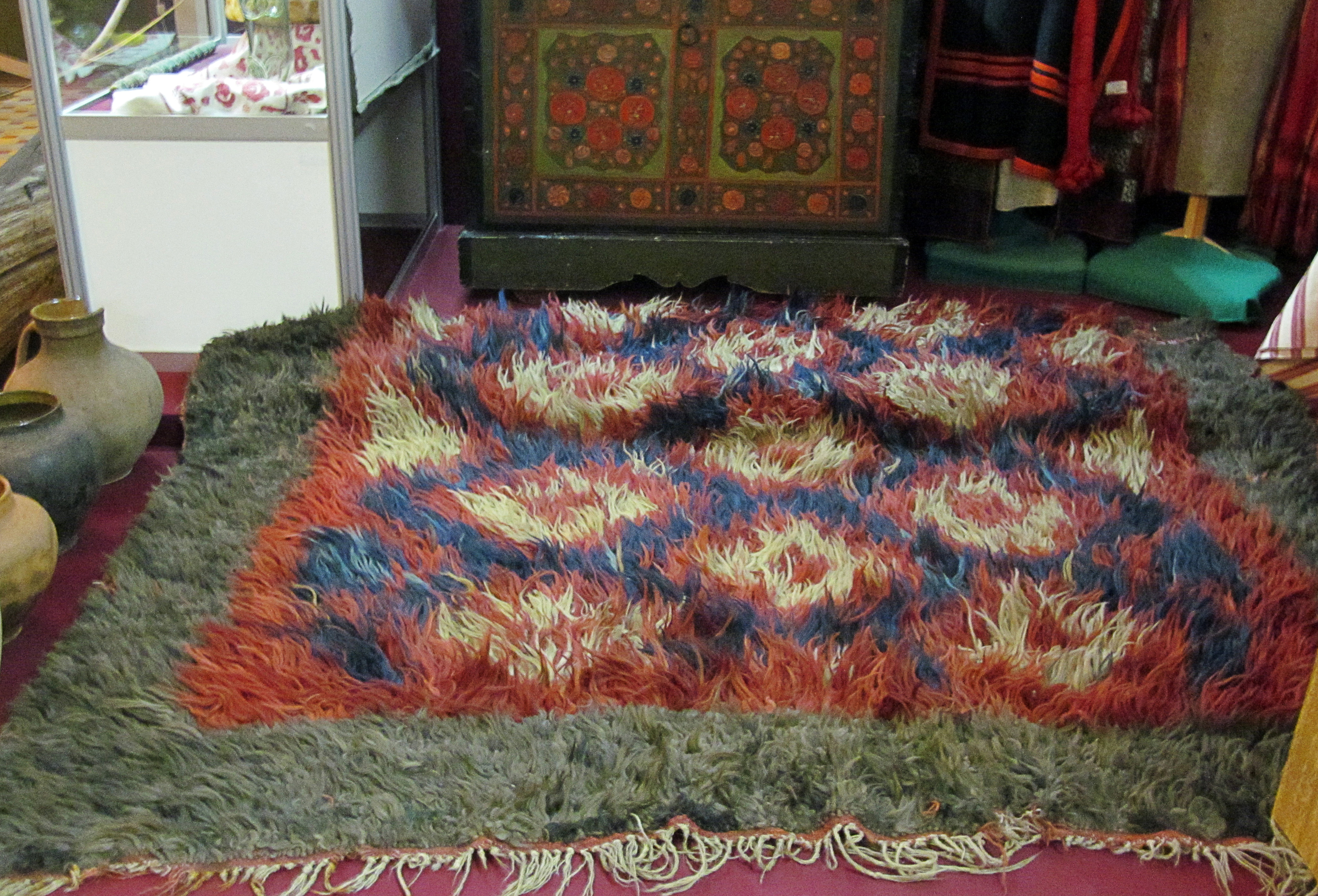 Kots (carpet) in the exposition of Kharkiv Historical Museum